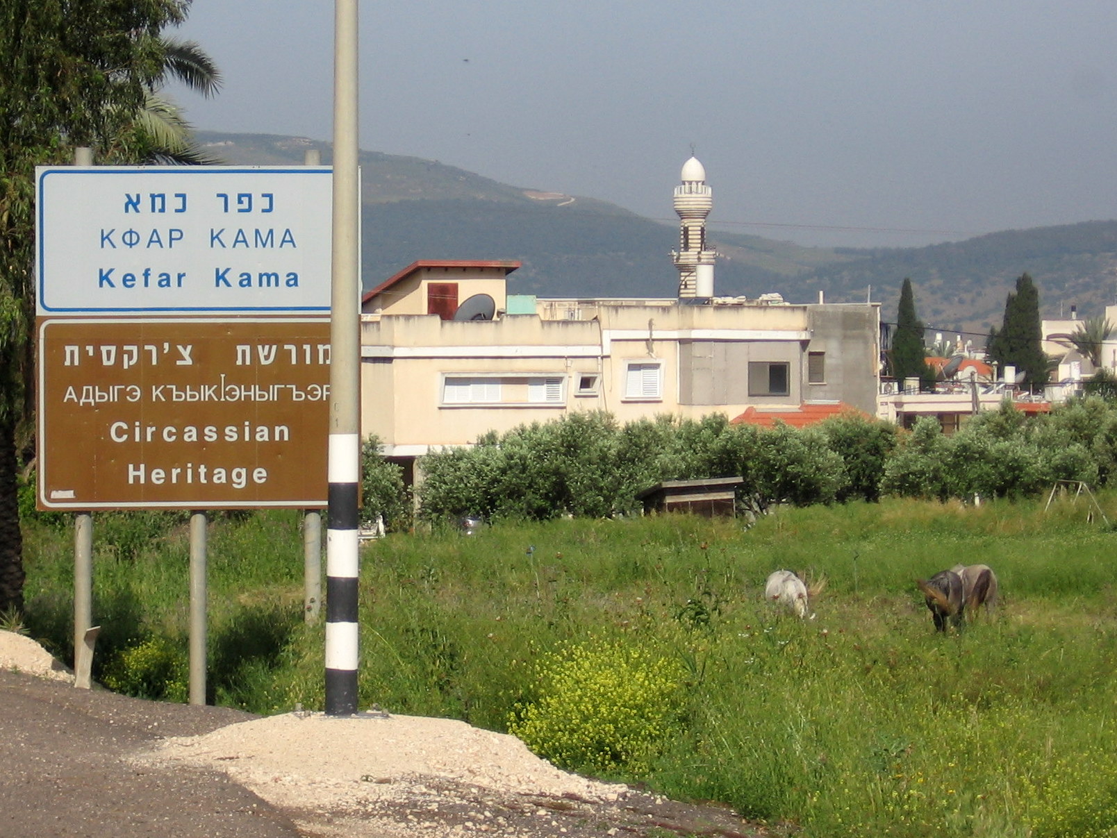 Kfar Kama in the lower Galilee, Israel